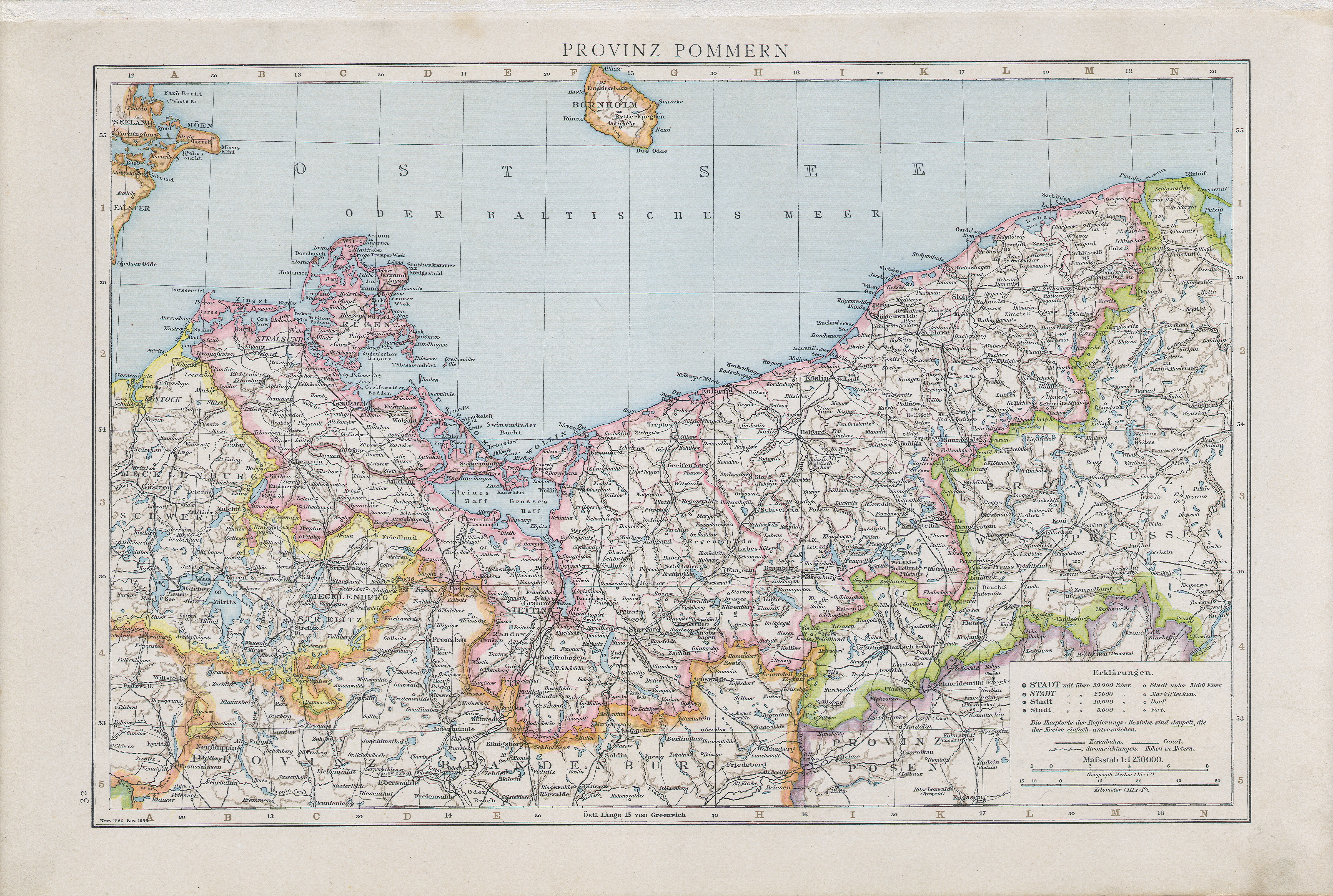 Map of Pomerania Province, 1890